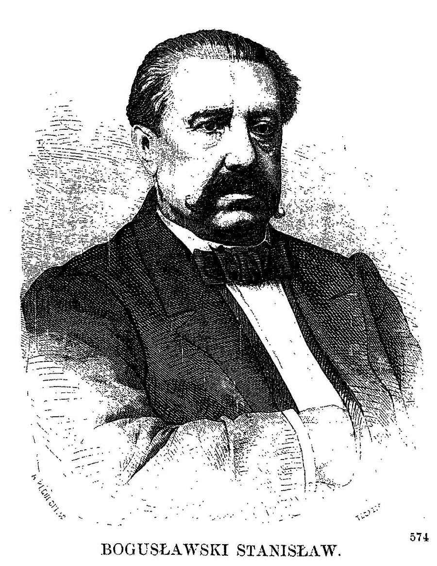 Polish writer - Stanisław Boguslawski